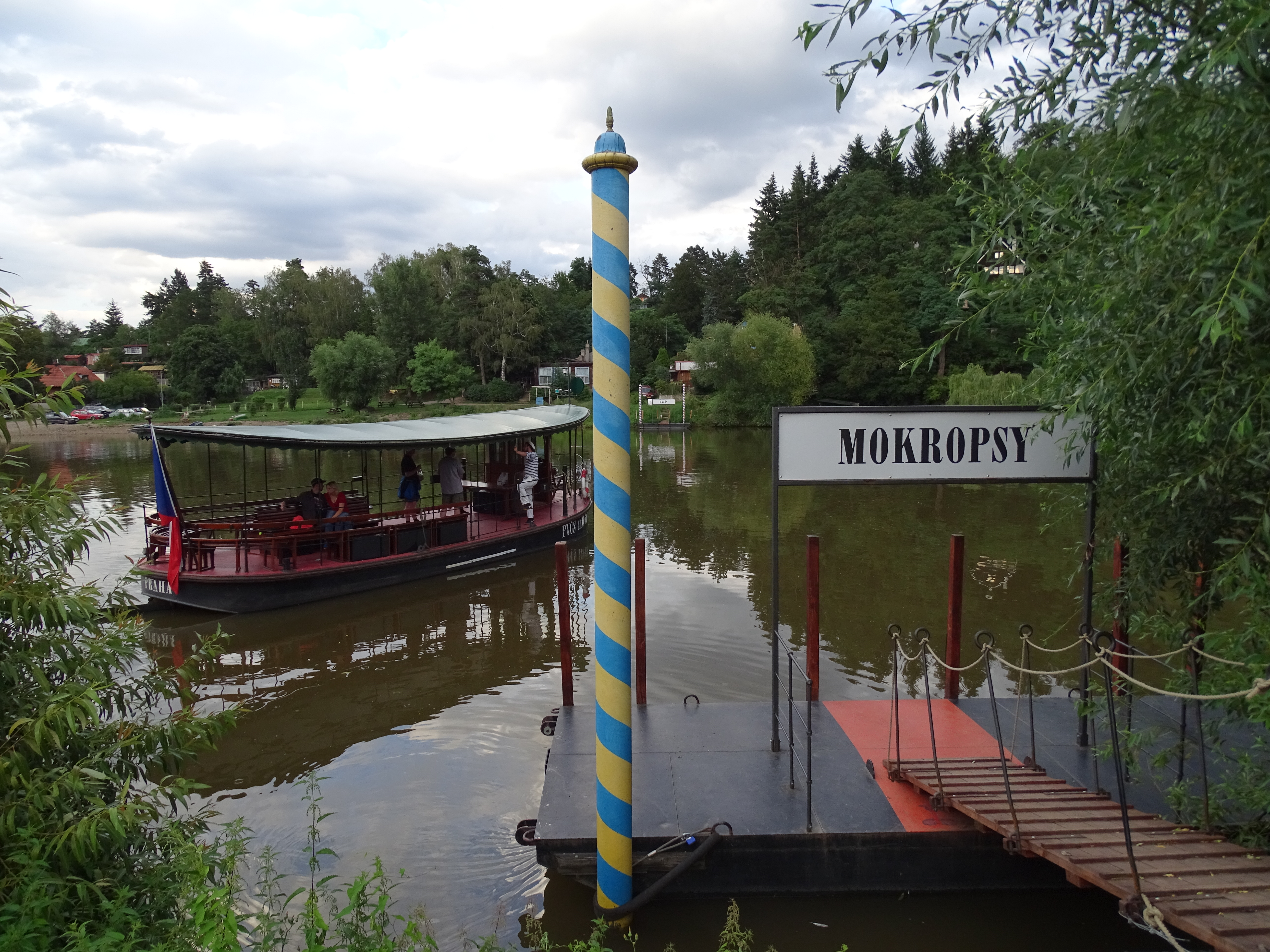 Černošice-Dolní Mokropsy, Prague-West District, Czech Republic. Kazín Ferry, Berounka river, Kazi boat.